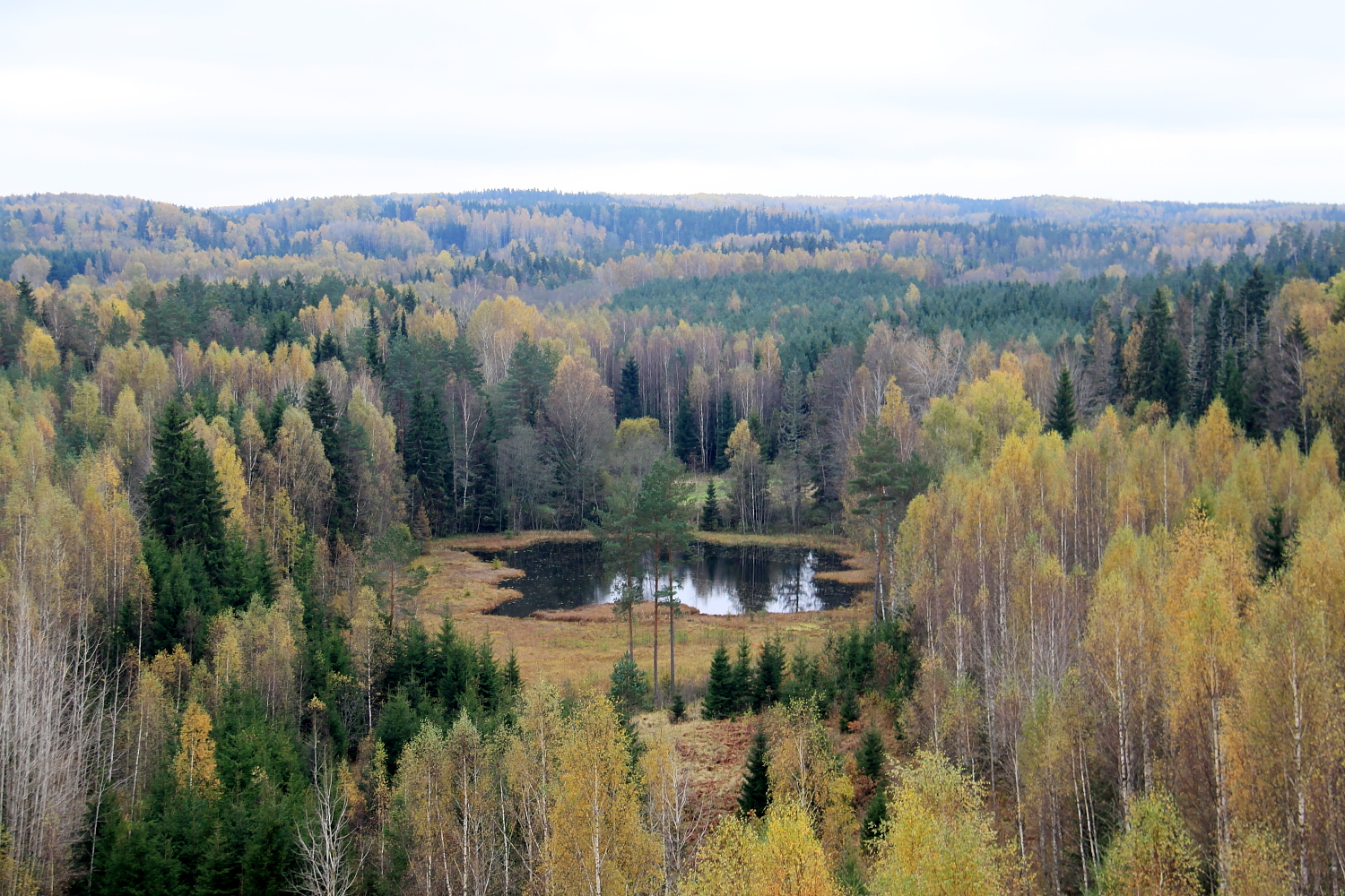 Lake Viti